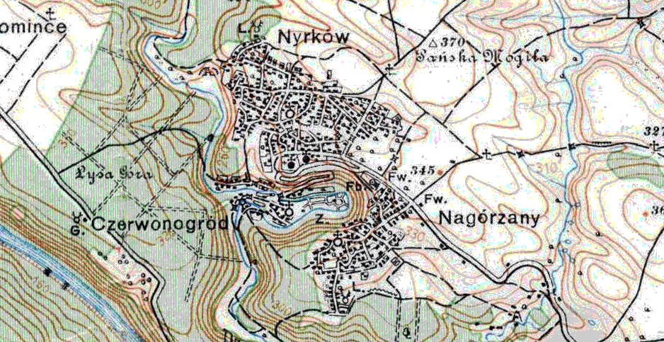 Czerwonogród and Nerków on Polish military map from 1925.